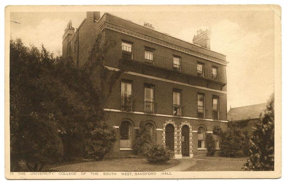 This is a photograph taken around 1934 of Sandford Hall when it was part of The University College of The South West. In 1950 St Wilfrid's School moved there.